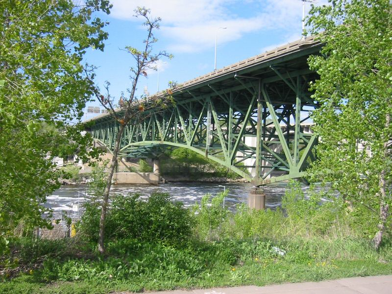 I-35W Mississippi River Bridge viewed from the south, along the west bank of the Mississippi River.